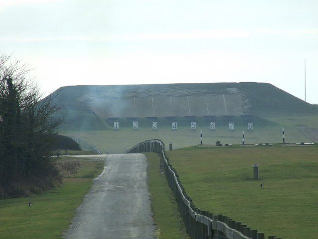 Rifle Range Chickerell Camp rifle range, taken from the footpath across the range. The smoke is from scrub land clearance nearby.